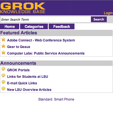 Grok mobile site as of October 2011